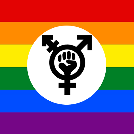 God Complex Official Twitter Logo